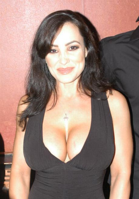 Lisa Ann at XRCO Awards 2007, April 5 2007